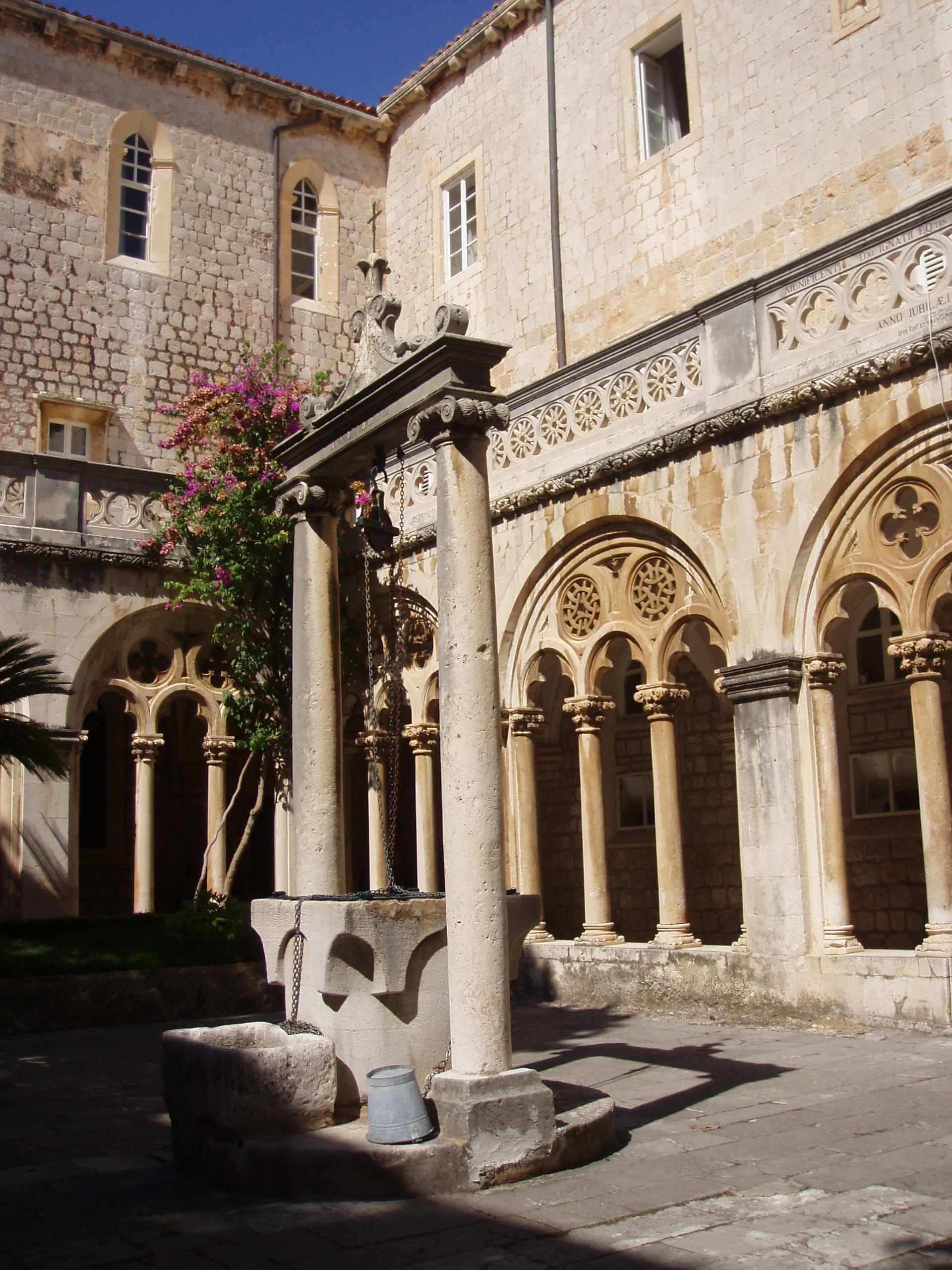 The well at the courtyard of Dominican monastery in Dubrovnik